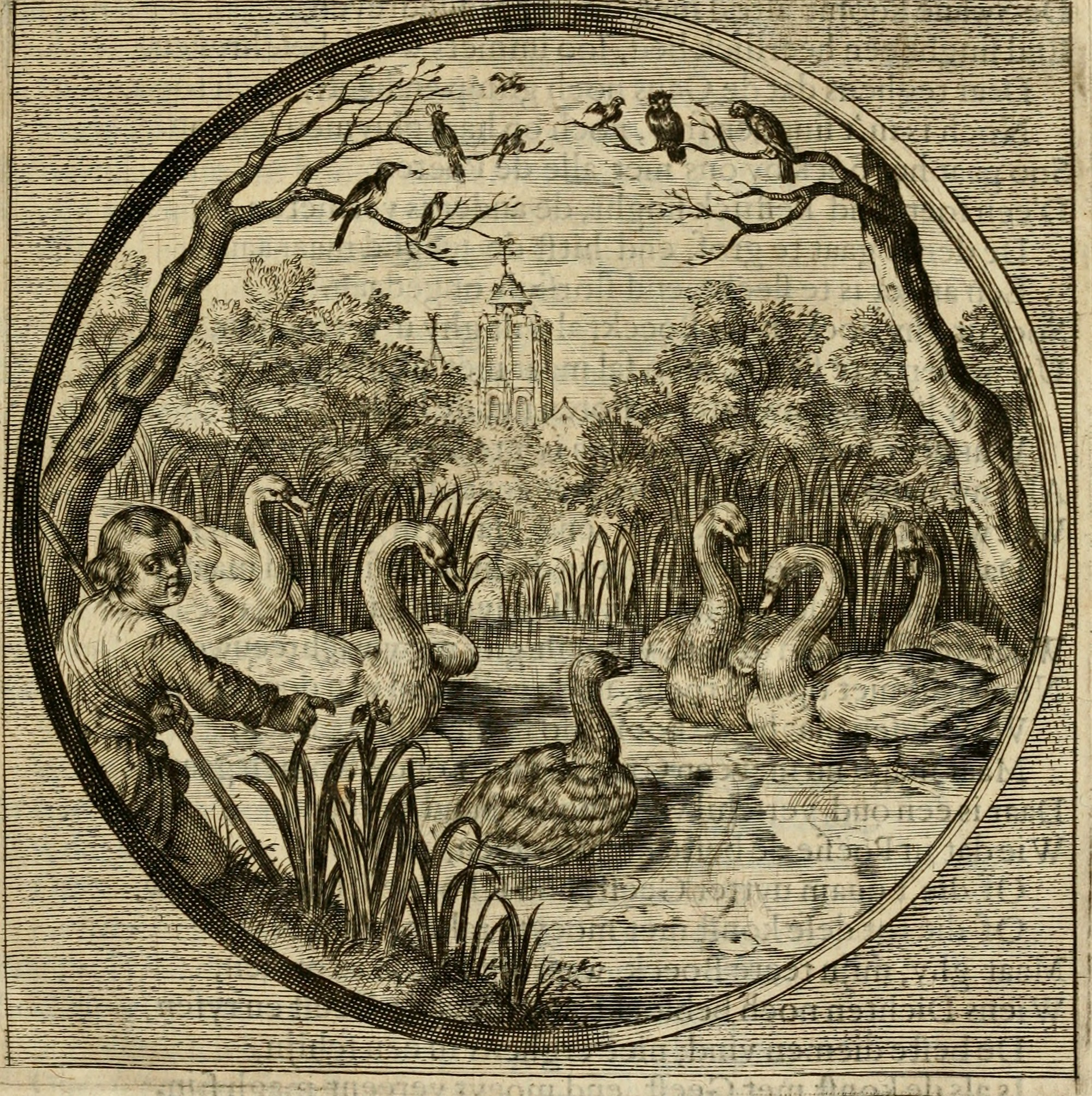 Title: Nederduytsche poëmata Year: 1635 (1630s) Authors: Hoffer, Adriaan, 1589-1644 Passe, Crispijn van de, d. 1670 Subjects: Emblems Publisher: t'Amsterdam : By Broer Jansz. ... Text Appearing Before Image: z^anfpra\^ des Authuers tot fijn ^oec\of gele* gentheyd van het Symholu^m^ ofte Devijs des felfs ^ hetlüpelck^ aldus layd Anfer ftrepit inter Olores. Al drijft een Gans met Syyanen jachtHy fnujft, hj blaaft gejijck hy plaght^ Text Appearing After Image: LJ Ier koomt een fchrale Gans in t midden van de Swanen,** End drijft opt watei heen vol ydelheyd, end wanen. Wat maackt hem doch foo ftout, hoe fal hy dit beftaan, Hoe dert hy hier ontrent fijn fwacke wiecken flaan ?Ghy hoort hem over al niet anders doen als quaken,Hy houd fijn oud geluyd, hoe foud hy t anders maken ^ Elck voghel finght fijn fangh naar dat hy is gebeckt. Naar dat hem de natuer tot fijnen aard verweckt.Deen voghel fal den menfch met fijnen fangh verluften,Hier in fijn eyghen Land, of daar op vreemde kuften, Een ander is te dom, end blaall gelijck een uyl, Eenmufch is al te geyl, een koeckoeckal te vuyl.De Swane koomt altijd met luyller aangedreven.End finght een heerlijck lied, foo immers word befchreven. Daar teghens dat de Gans noch glimp en heeft, noch toon. Noch is in t finghen fray, noch op haar pluymen fchoon.Soo gaat het oock by ons met alle de Poëten,Deen foet, end lieflijck finght, de ander is vermeten. De derde gaat te grof, end hitft de jueghd maar aan. Ee